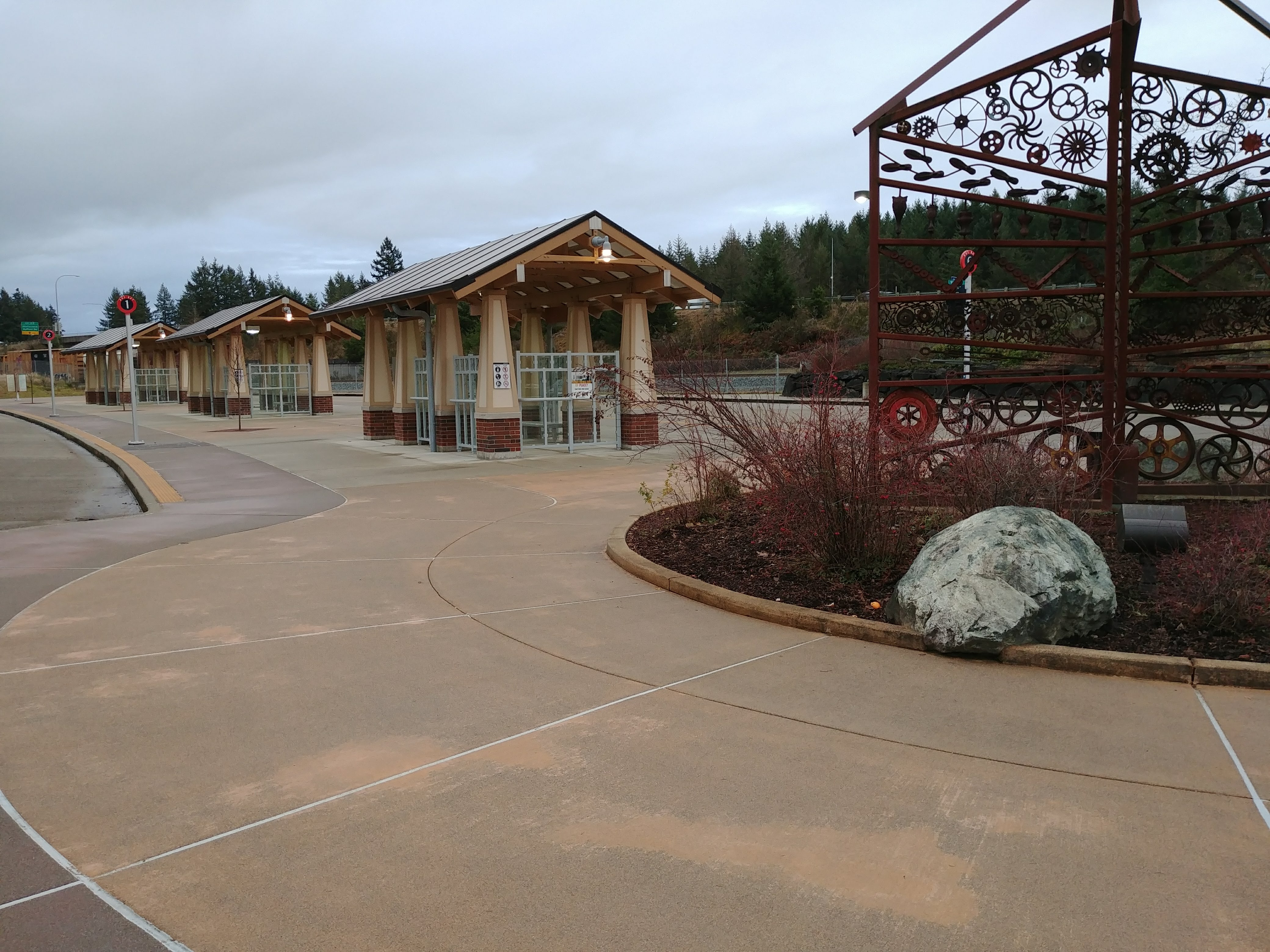 Closeup of public artwork at DuPont Station in DuPont, Washington